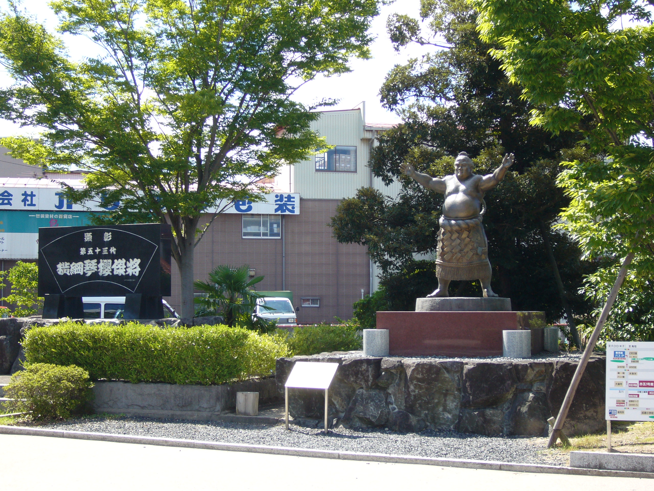 Kotozakura Masakatsu Bronze statue near the entrance of Utubuki Park (Kurayoshi, Tottori Prefecture, Japan)